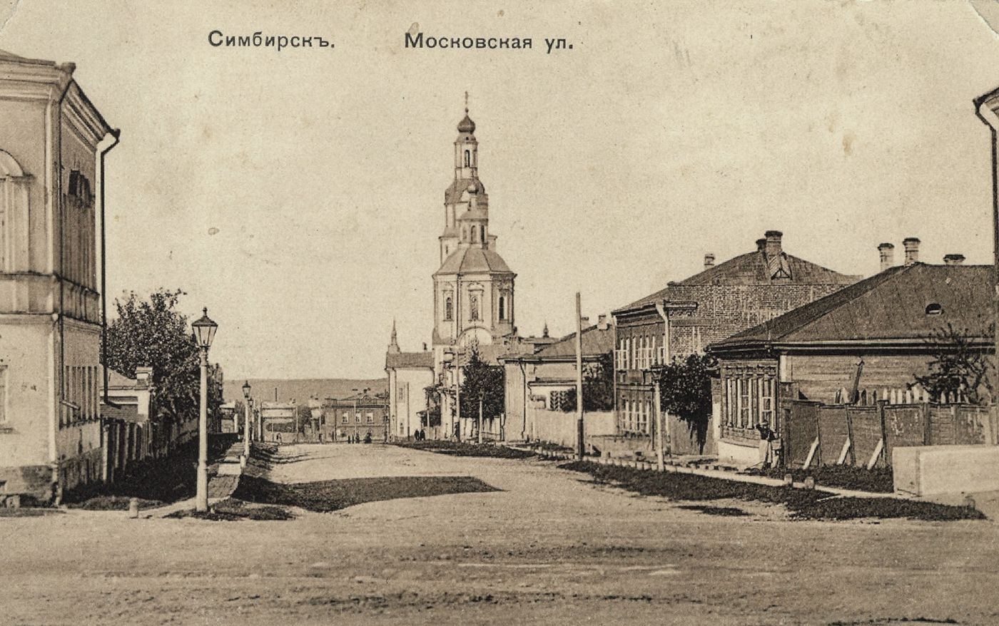 Old Ulyanovsk